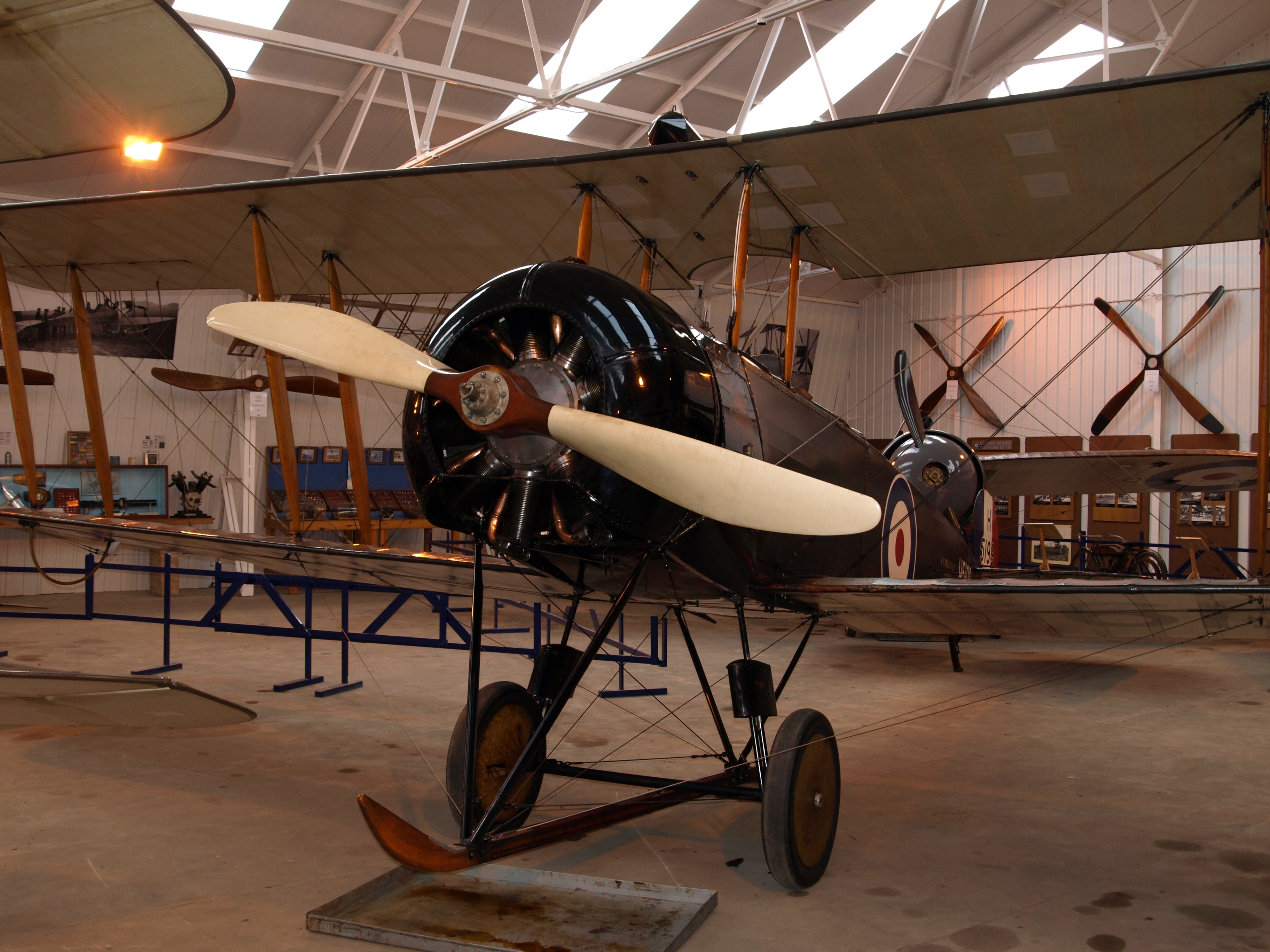 Airworthy Avro 504 biplane on display at the Shuttleworth Collection, Old Warden, England.